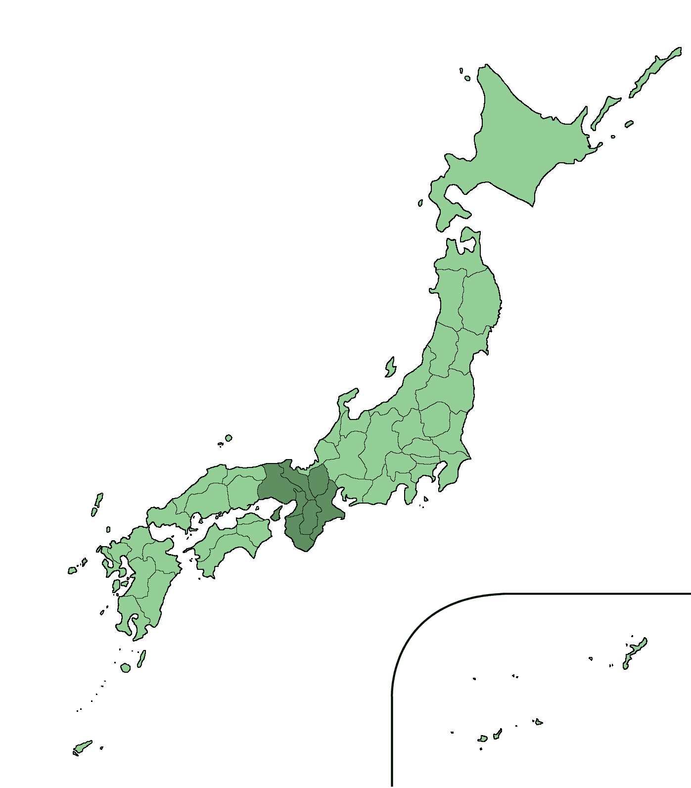 Large size map of Japan with Kinki region highlighted, self made but originally based on a japanese mapbook.